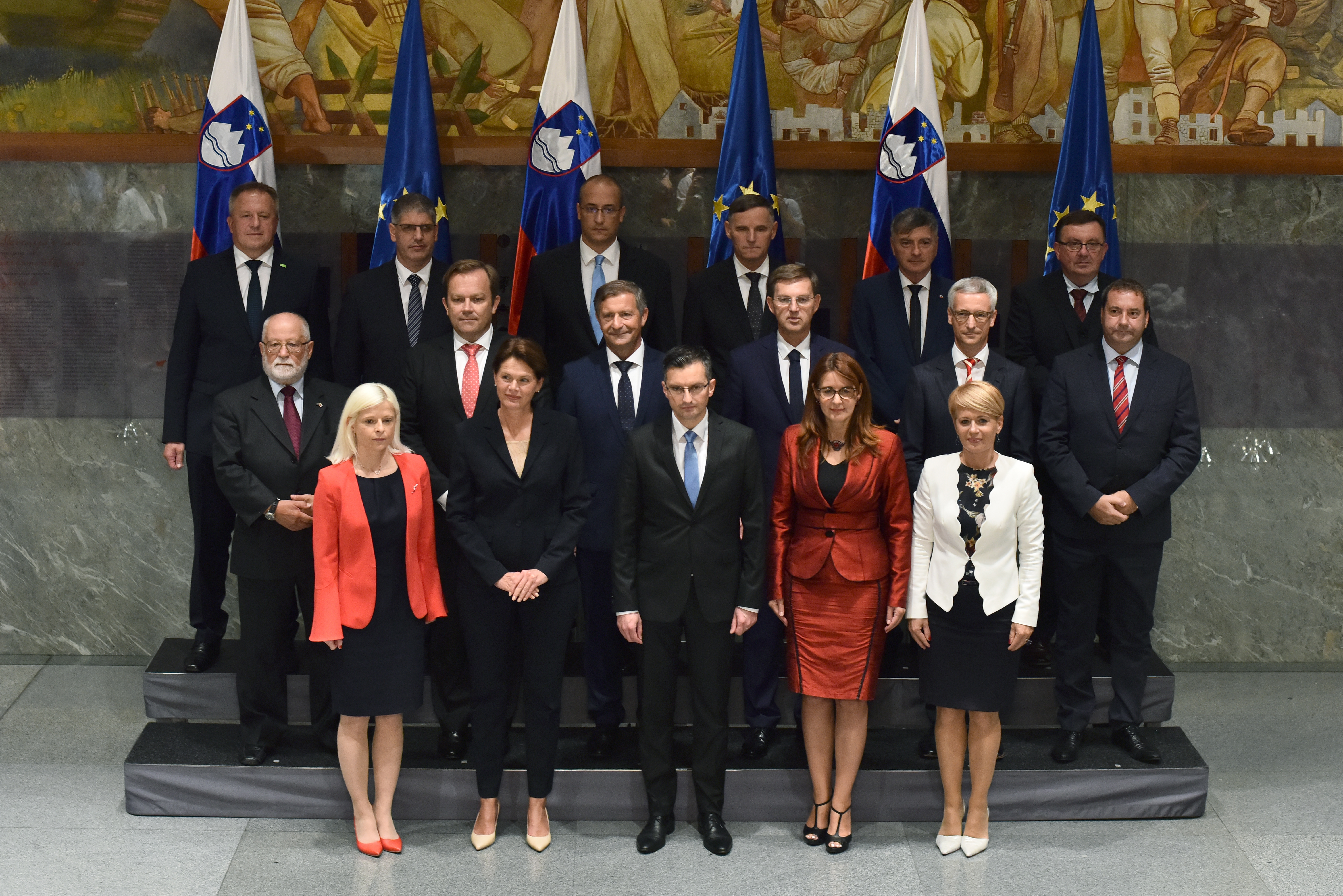 13th Government of Slovenia, group fotograph in the National Assembly building after a meeting